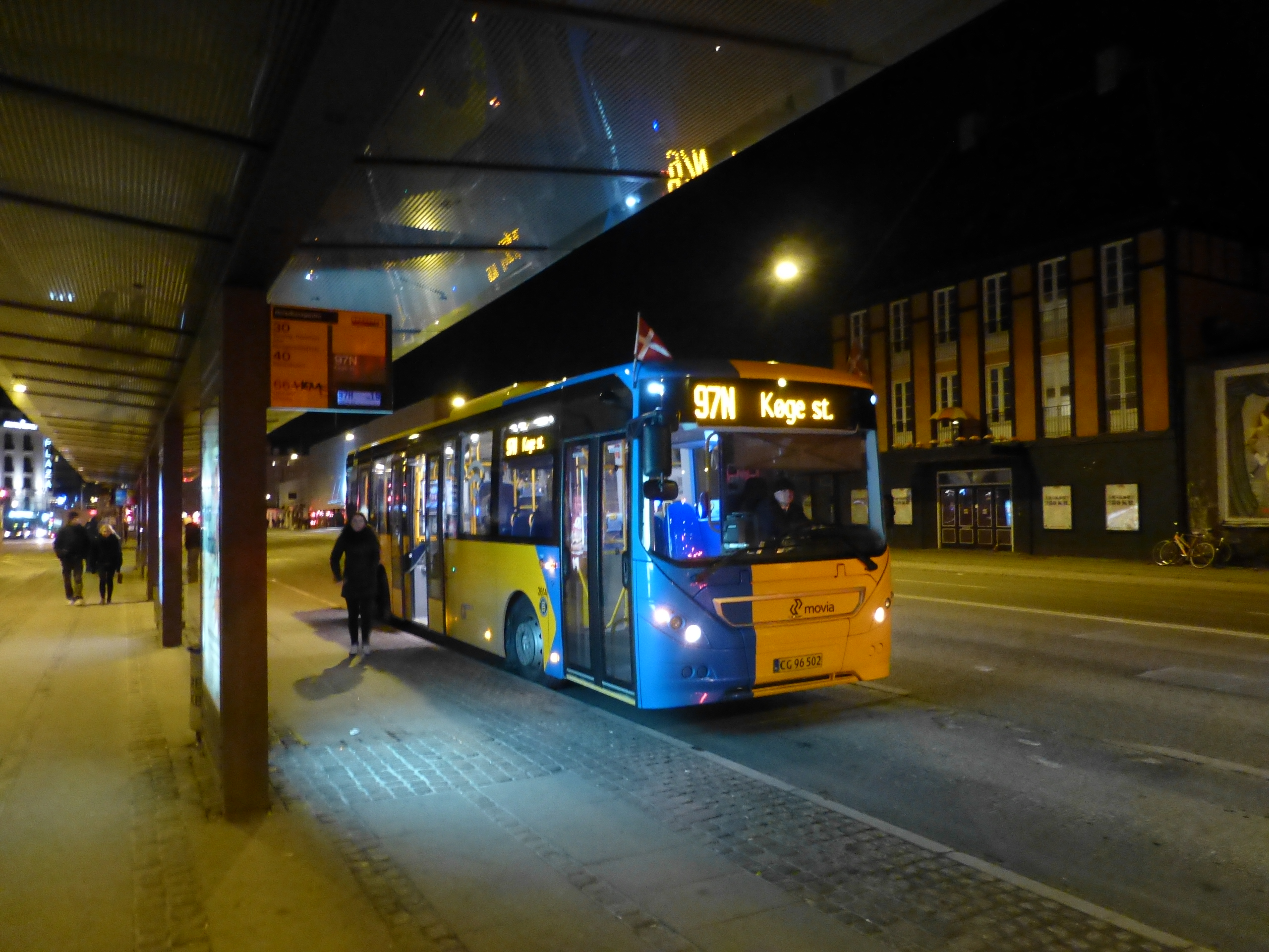 Movia bus line 97N in Bernstorffsgade at Copenhagen Central Station.